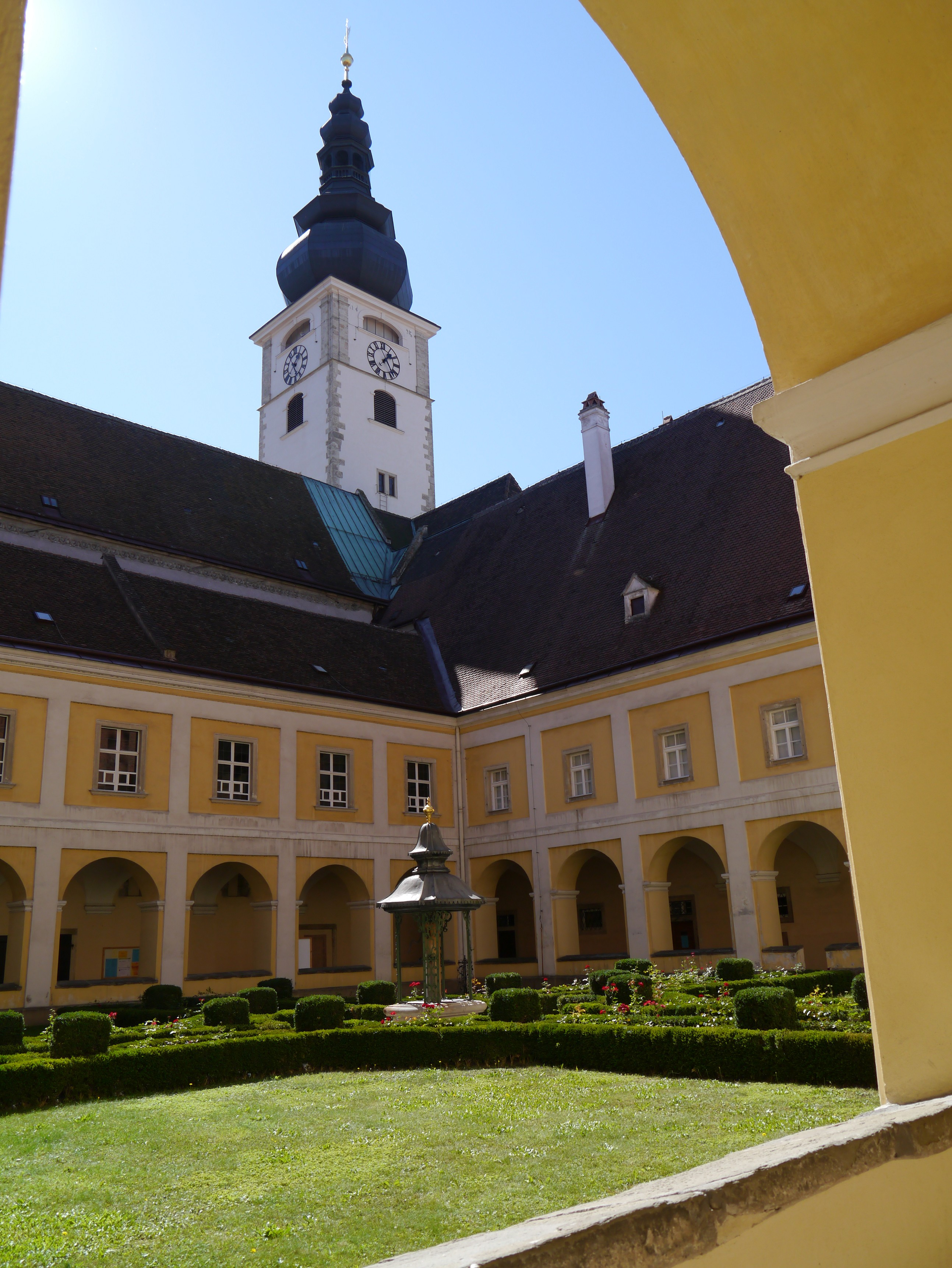 Cloister of the Minster/Cathedral of Our Lady Assumption, St. Pölten